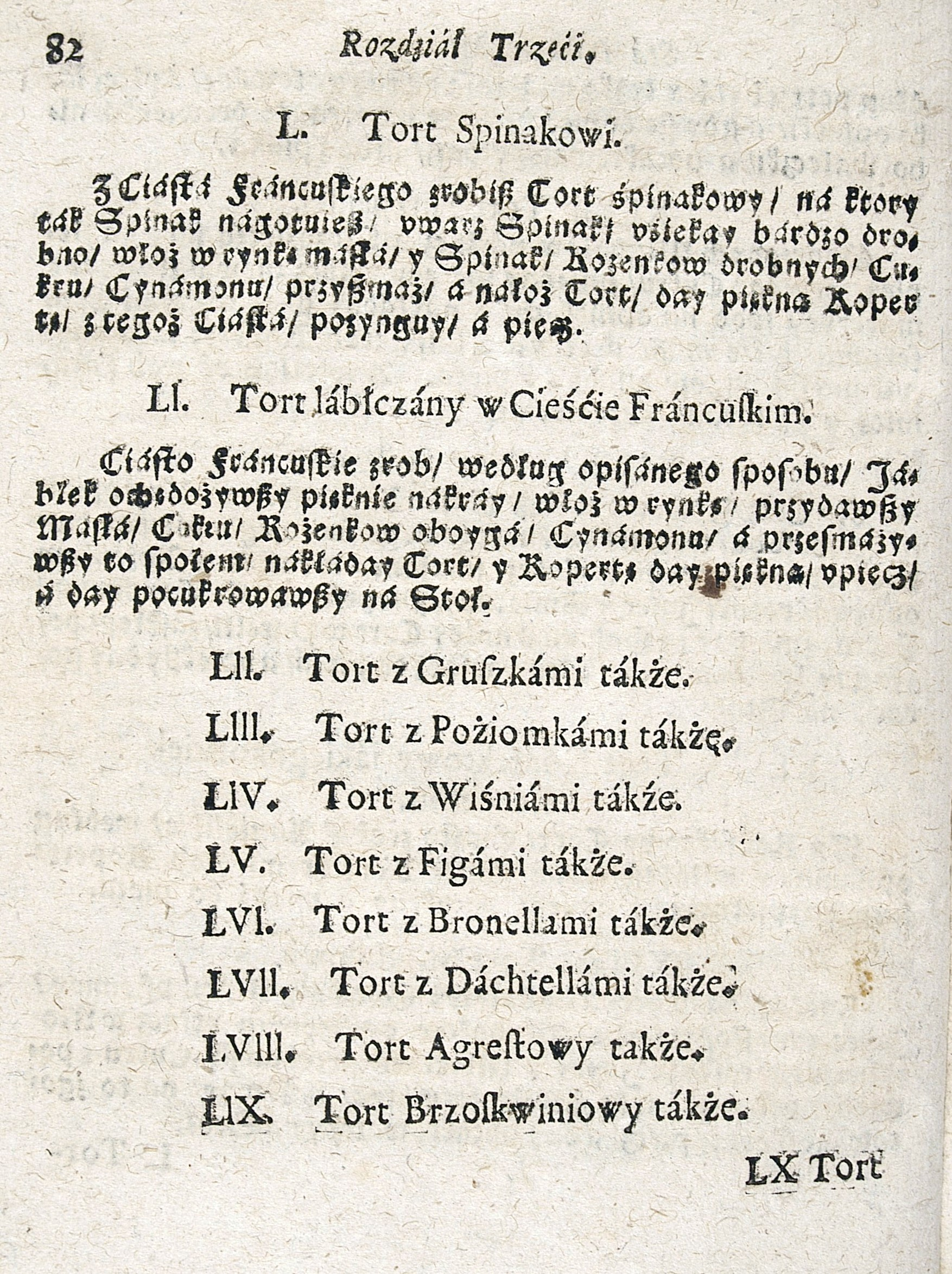 Page 82 from the original 1682 edition of the cookbook Compendium ferculorum. Recipes for spinach tart, puff-pastry apple tart and several headings with no recipes.